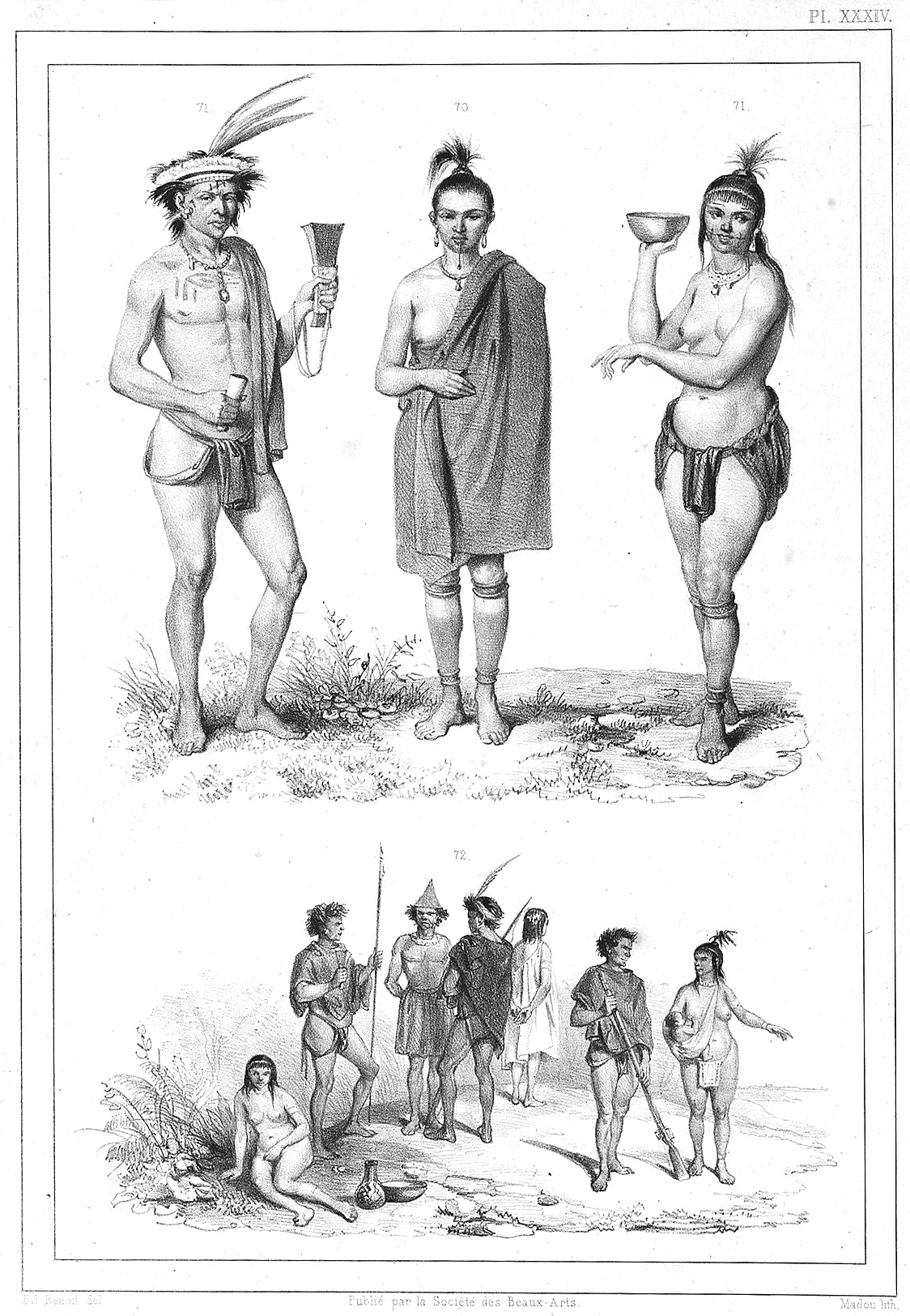 Caraib indians, one of them wearing a tattoo. And the same indians, dressed. The indians decorate their skin with a red dye, orleaan. This yellowish red dye is extracted from the fruits of Bixa orellana, also called roucou or kusuwe. Indian women wear pants or apron, the men wear loin-cloth. Occasionally a wrap was used.